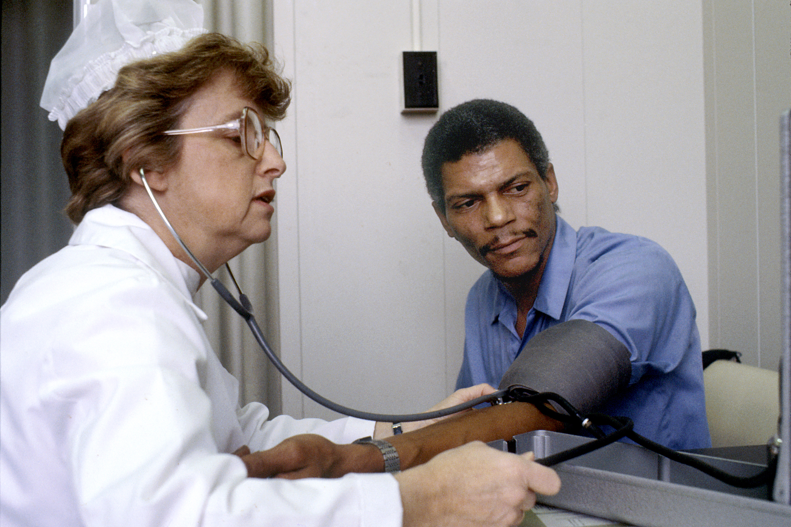 Title Nurse Checks Blood Pressure Description An adult African American male patient and a Caucasian female nurse wearing a lab coat. She is testing him for high blood pressure and they are both looking at the indication on the measuring instrument. The patient may require the use of a drug to control his high blood pressure. Topics/Categories People -- Adult People -- Health Professional and Patient Test or Procedure -- Physical Exam Type Color, Photo Source National Cancer Institute